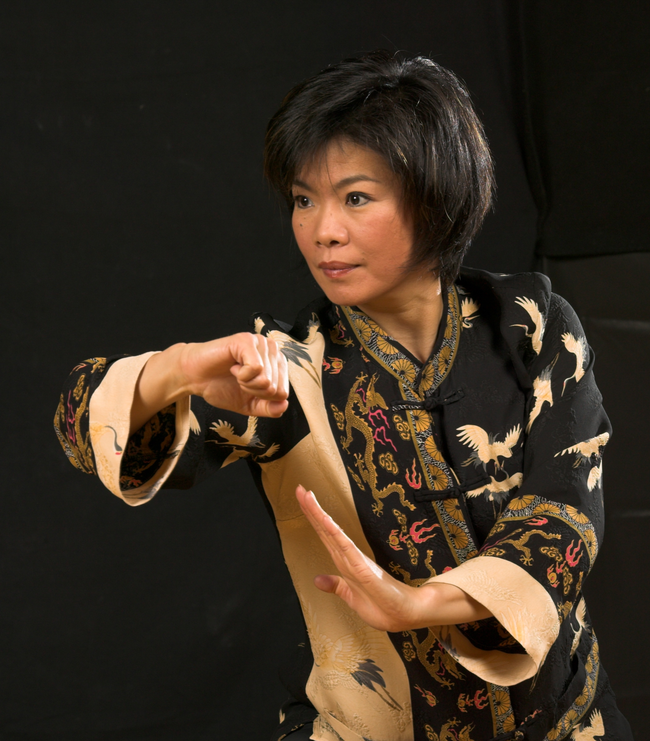 Master Hao Zhi Hua